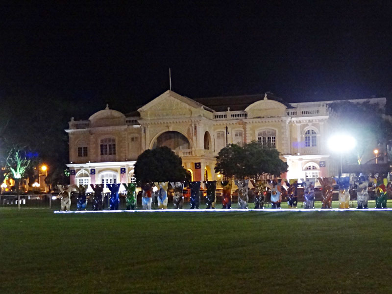 United Bears in Georgetown, Penang (Malaysia) 2016